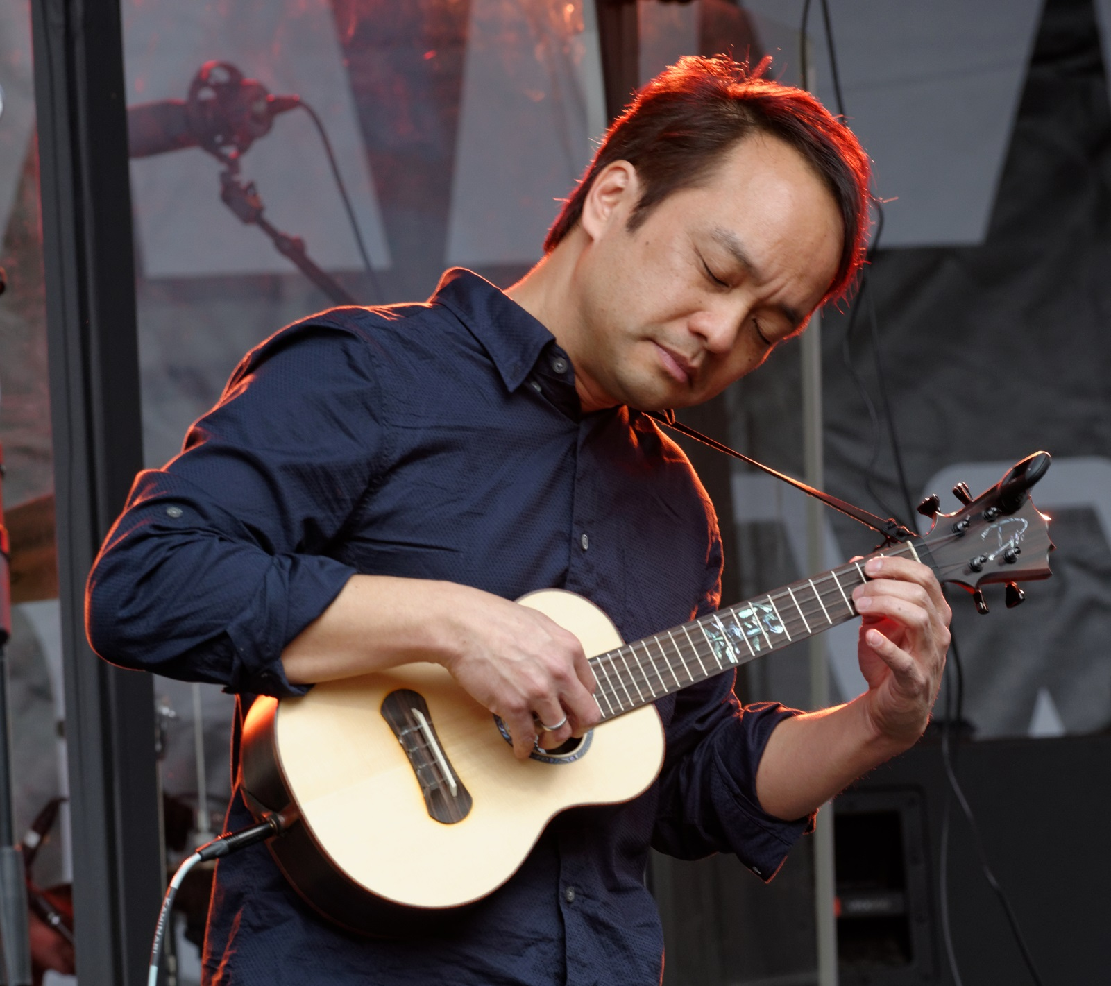 Daniel Ho at the Winter NAMM Show 2015